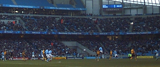 Photo taken and uploaded by User:Oldelpaso on 28 Jan 2006. Manchester City v Wigan Athletic, FA Cup 4th round